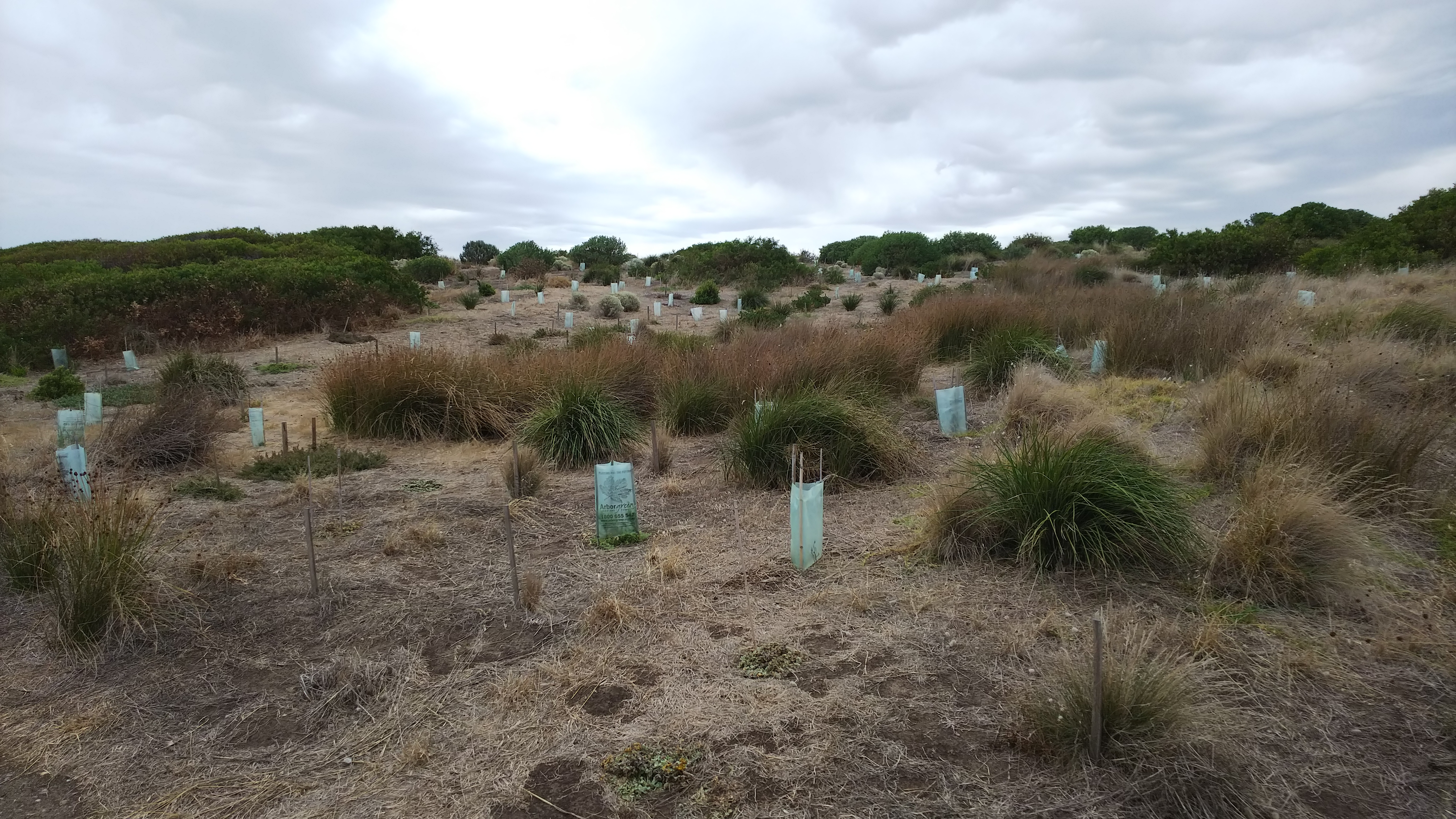 Granite Island